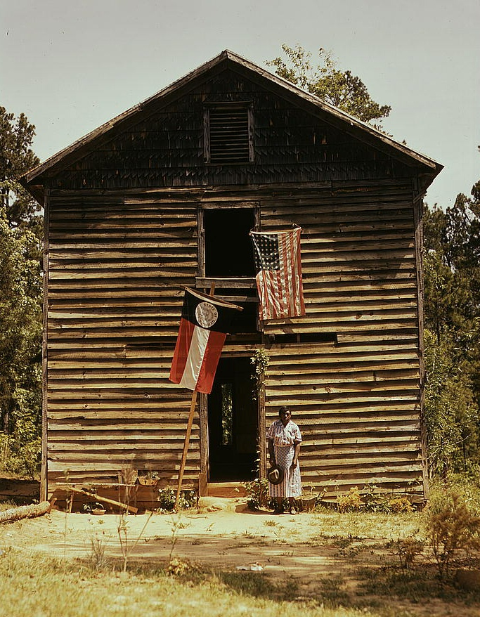 African American woman standing by building with Georgia state flag and United States flag near White Plains, Georgia, ca. 1941.